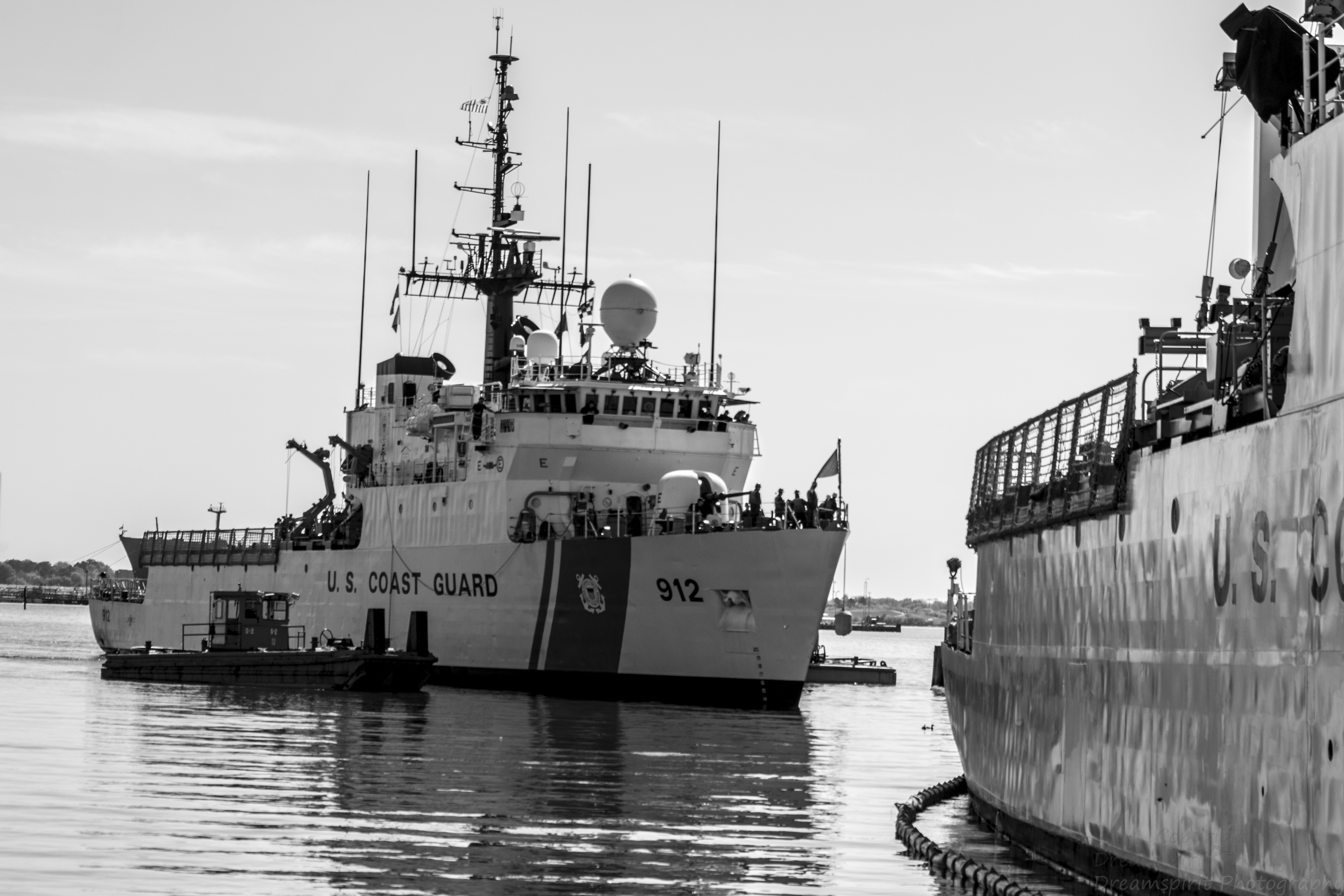 USCGC Legare returning to homeport after a patrol 04-28-18